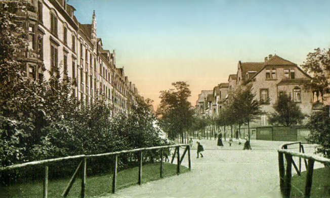 Postcard of Buchrainweg in Offenbach